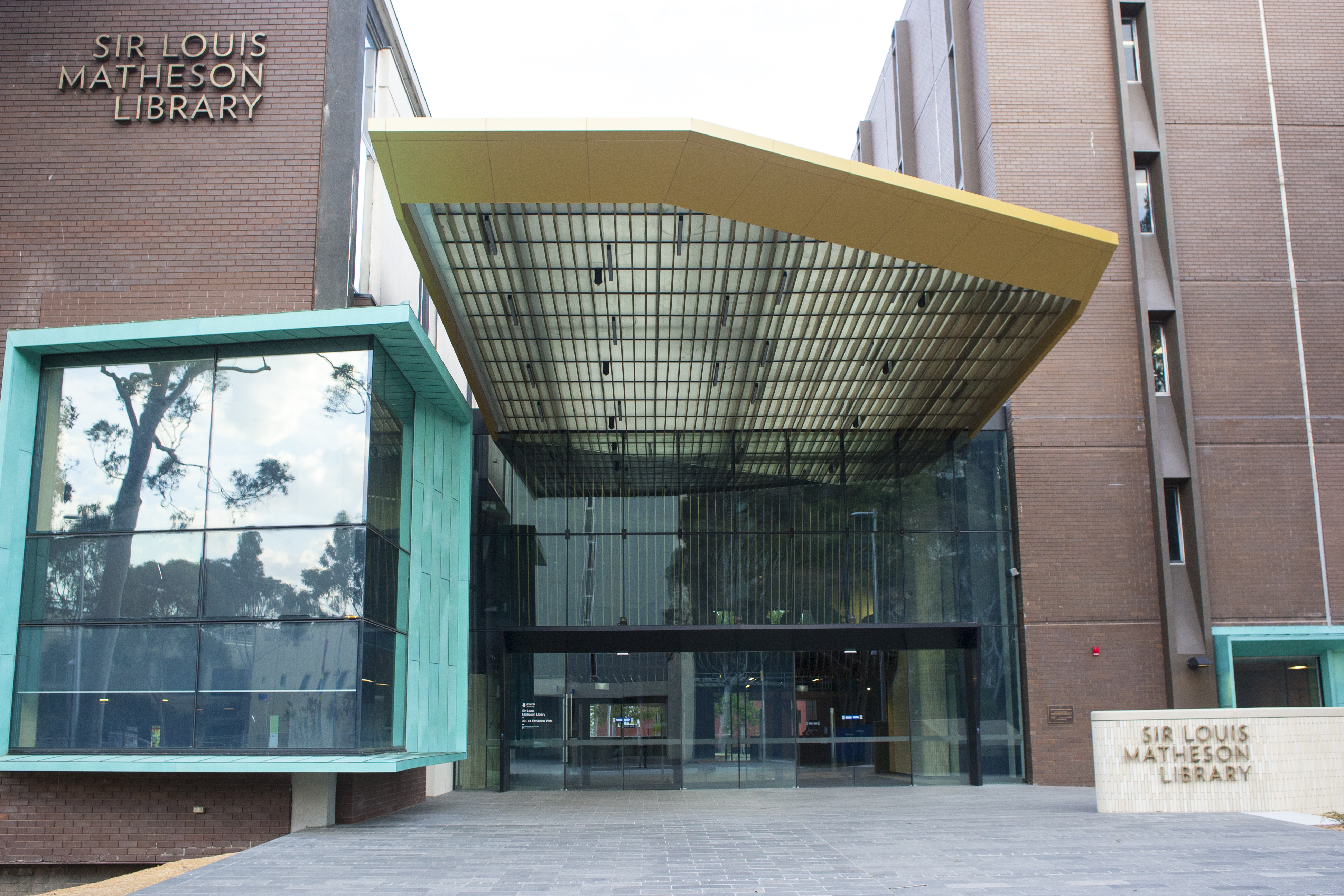 Sir Louis Matheson Library, Humanities, Monash University, .au